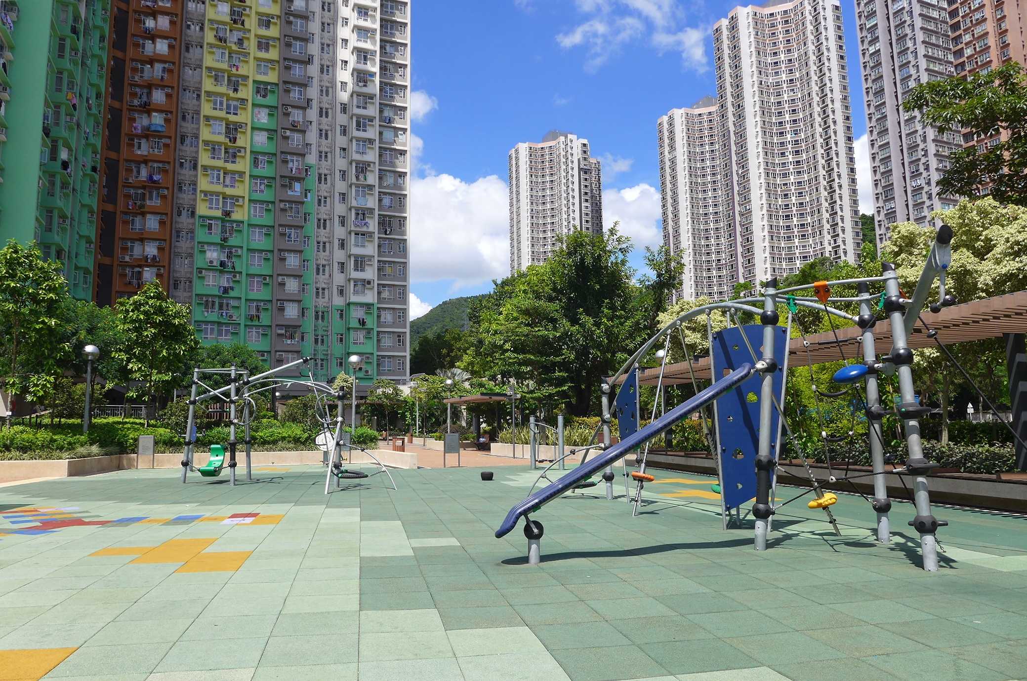 Mei Tin Estate Phase 4 Playground